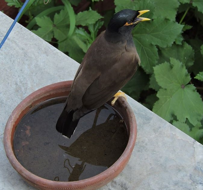 Common Myna, Sector - 61, Chandigarh, India